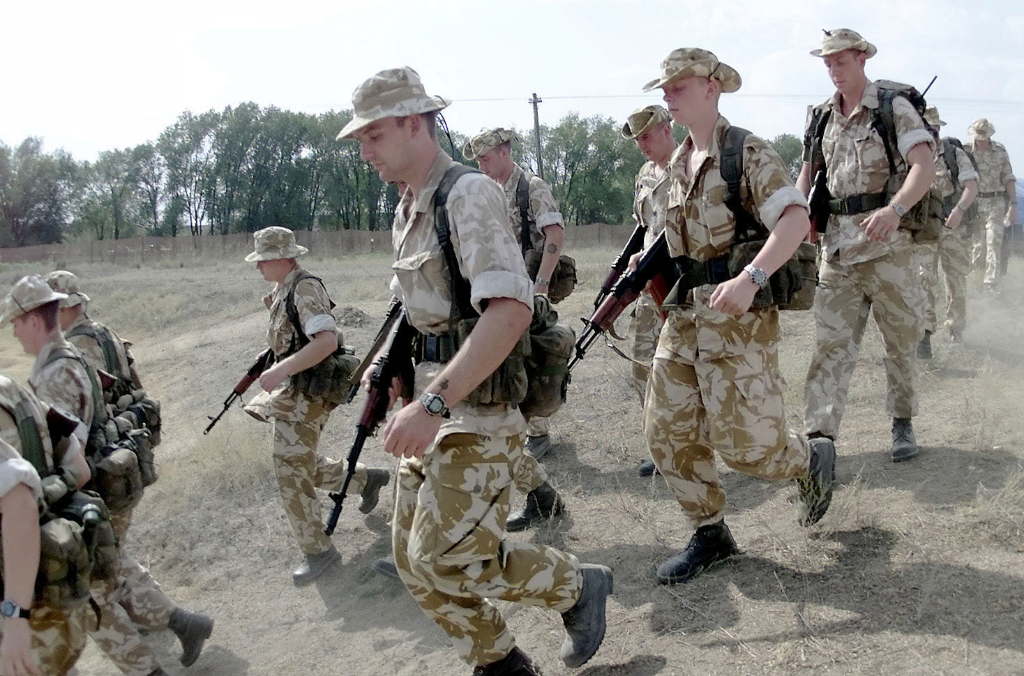 A reinforced squad of soldiers armed with 5.45 mm AK-74 assult rifles moves across open terrain during exercise Central Asian Peackeeping Battalion (CENTRASBAT) 2000, Almaty, Kazakhstan (KAZ) Wednesday 15 September2000. The CENTRASBAT 2000 exercise is a multi-national, in the Spirit of Partnership for Peace, peacekeeping and humanitarian relief exercise sponsored by United States Central Command (US CENTCOM) and hosted by former Soviet Republic Kazakhstan in Central Asia, 11-20 September 2000. Exercise participants include approximately 300 US troops including personnel from US CENTCOM, the 82nd ABN Div and 5th Special Forces Group, Ft. Campbell, Kentucky, and approxiametly 300 Kazakhstan soldiers. Other participating nations include: Uzbekistan, Kyrgystan, The United Kingdom, Turkey, Russia, Georgia, Azerbaijan and Mongolia. The objectives of CENTRASBAT 2000 are to strengthen militaryÐtoÐmilitary relationships and regional security, and to increase interoperability between NATO and partner nations. CENTRASBAT originated in 1996, and was established to form a joint battalion of soldiers from the former Soviet Republics of Kazakhstan, Kyrgystan and Uzbekistan to serve as a key component in developing a regional security and cooperation structure. CENTRASBAT 2000 will test US and Central Asian unit's combat readiness and ability to conduct peacekeeping and humanitarian operations, as well as develop and build cooperative relationships between the respective states and assist in laying the foundation for future peacekeeping and humanitarian operations.